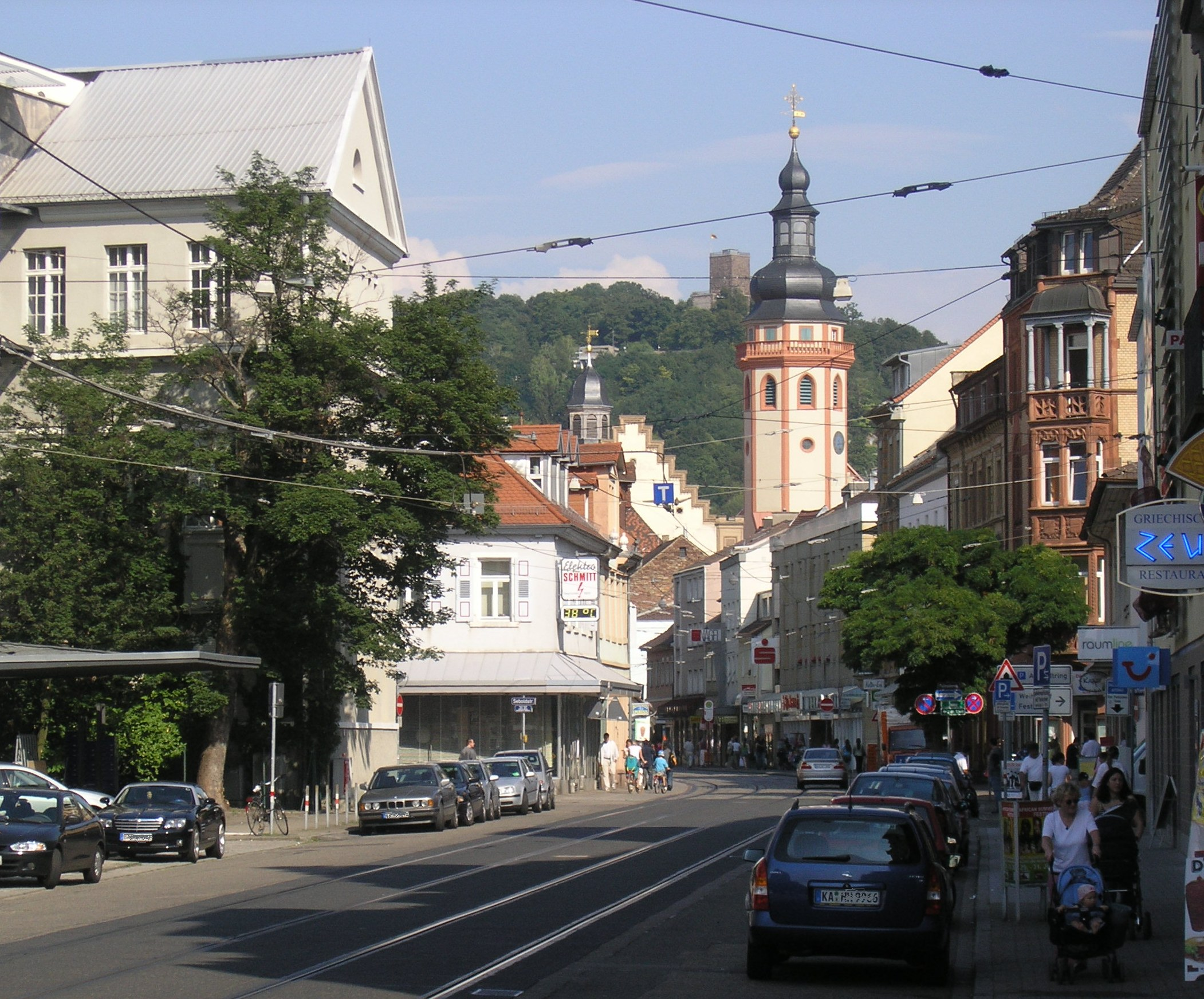 Durlach